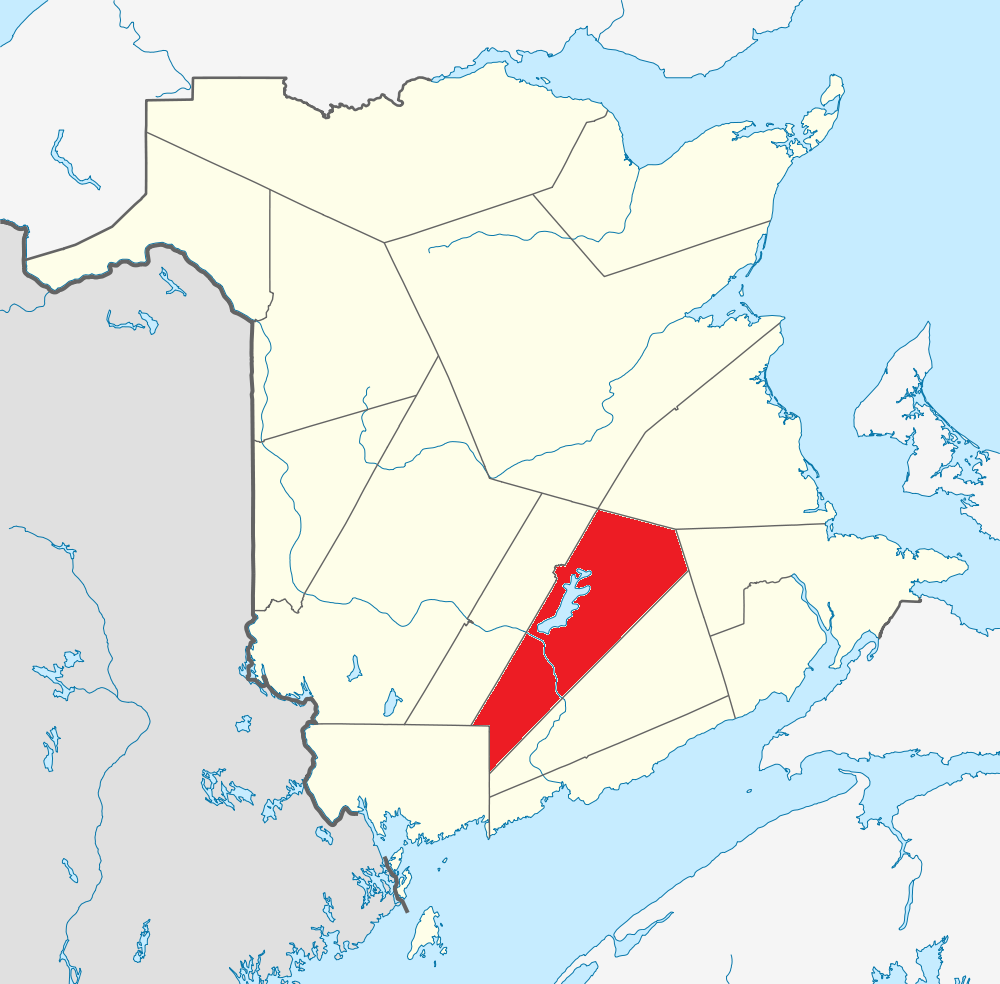 Map of New Brunswick highlighting Queens County